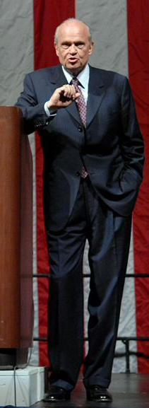 Fred Addresses the Midwest Leadership Coalition